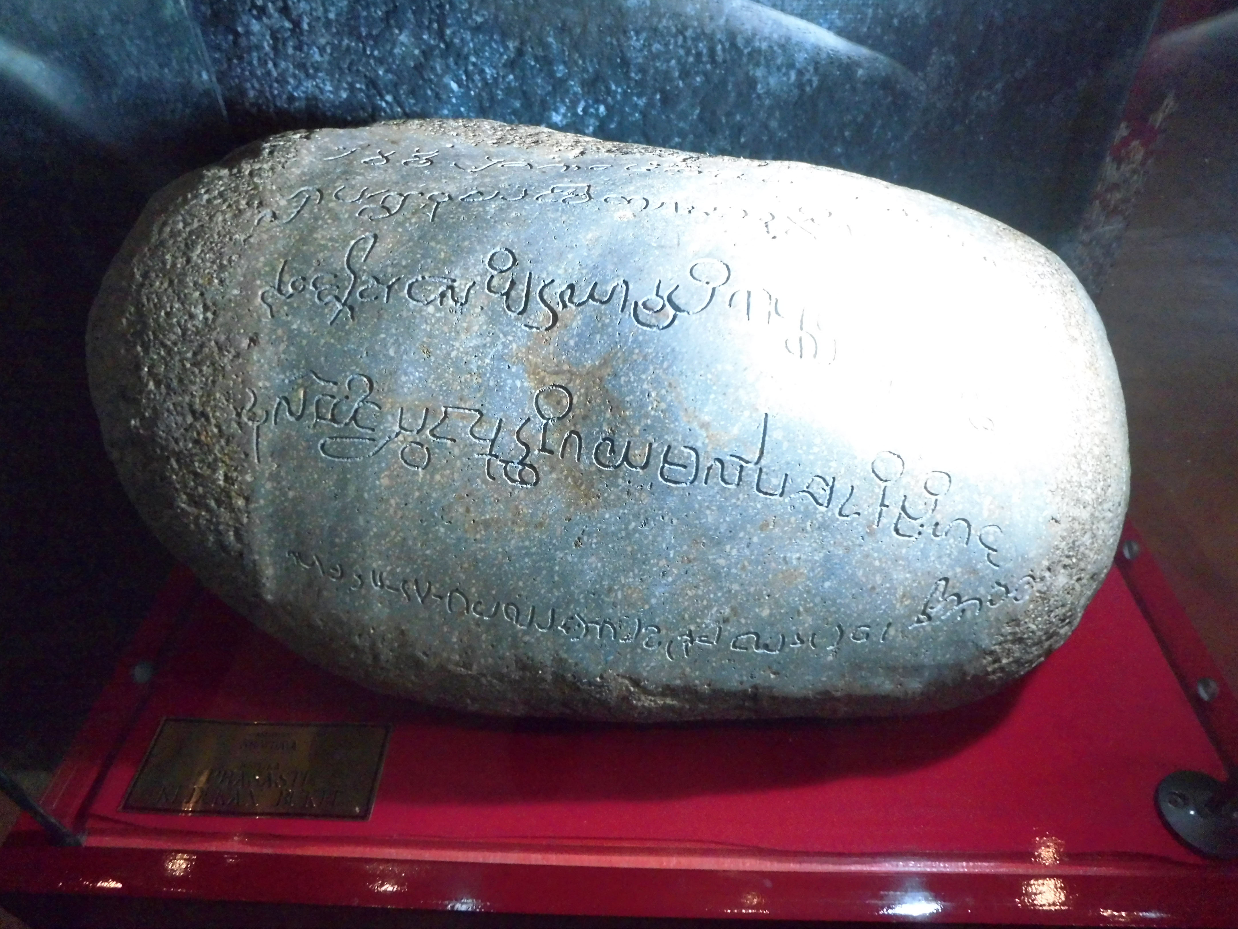 Kedukan Bukit inscription (7th century, Srivijaya, Palembang), displayed in "Kedatuan Sriwijaya" exhibition in November 2017. National Museum of Indonesia, Jakarta, Indonesia.